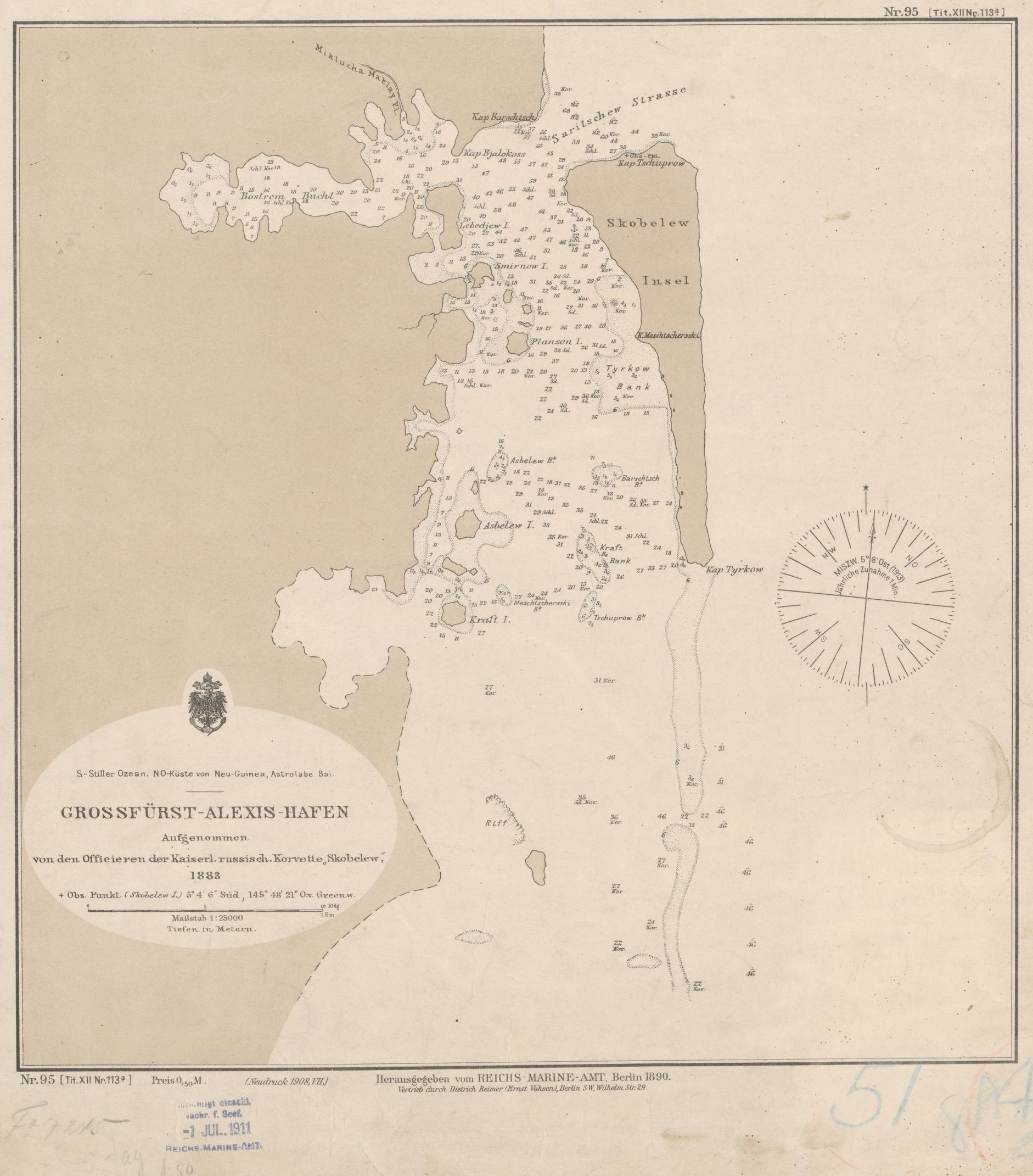 Nautical map of Astrolabe Bay, near Alexishafen (named by Nicholas Mikhlouho-Maclay after the Admiral of the Imperial Russian Navy Alexei Alexandrovich Romanov) in Papua New Guinea with depth shown by soundings. The map was made during the visit of the Imperial Russian corvette "Skobolew" in 1883. At the top of the map can be seen the "Miklucha Maklay Fluss" (Mikhlouho-Maclay River). This version of the map was published in Germany in 1908. Deitsch: Großfürst-Alexis-Hafen [cartographic material]: ausgenommen von den Offizieren der Kaiserlich russischen Korvette «Skobelew», 1883